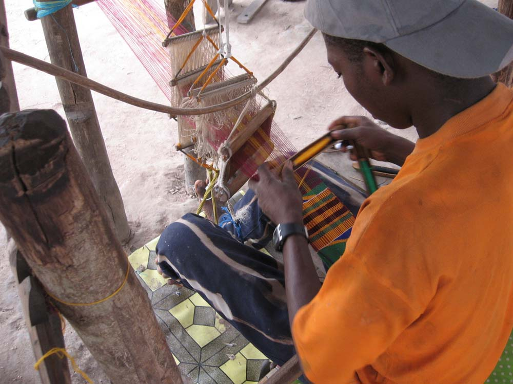 Kente weaving is a traditional Ghanaian art. I visited a village loaded with Kente weavers with my parents. Unfortunately, many of the weavers are underage (some as young as 8). In fact, many come from neighboring Togo in search of money. What they got is 2 years of unpaid training (but they are fed and housed) and then they return to their country after the third year with a loom and skills.